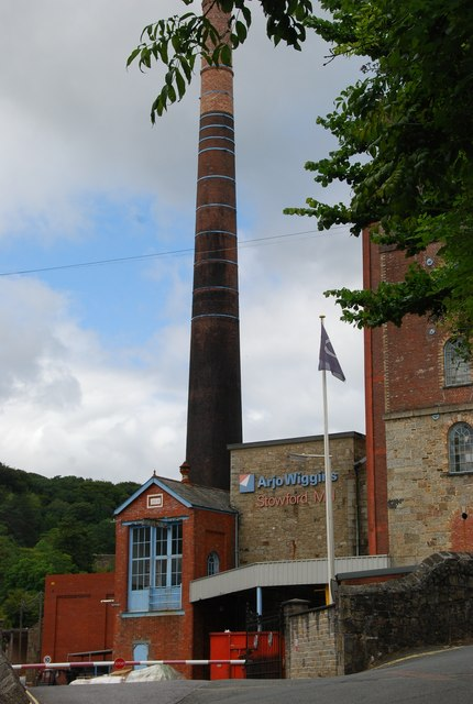 Arjo Wiggins Paper Mill Stowford, Ivybridge